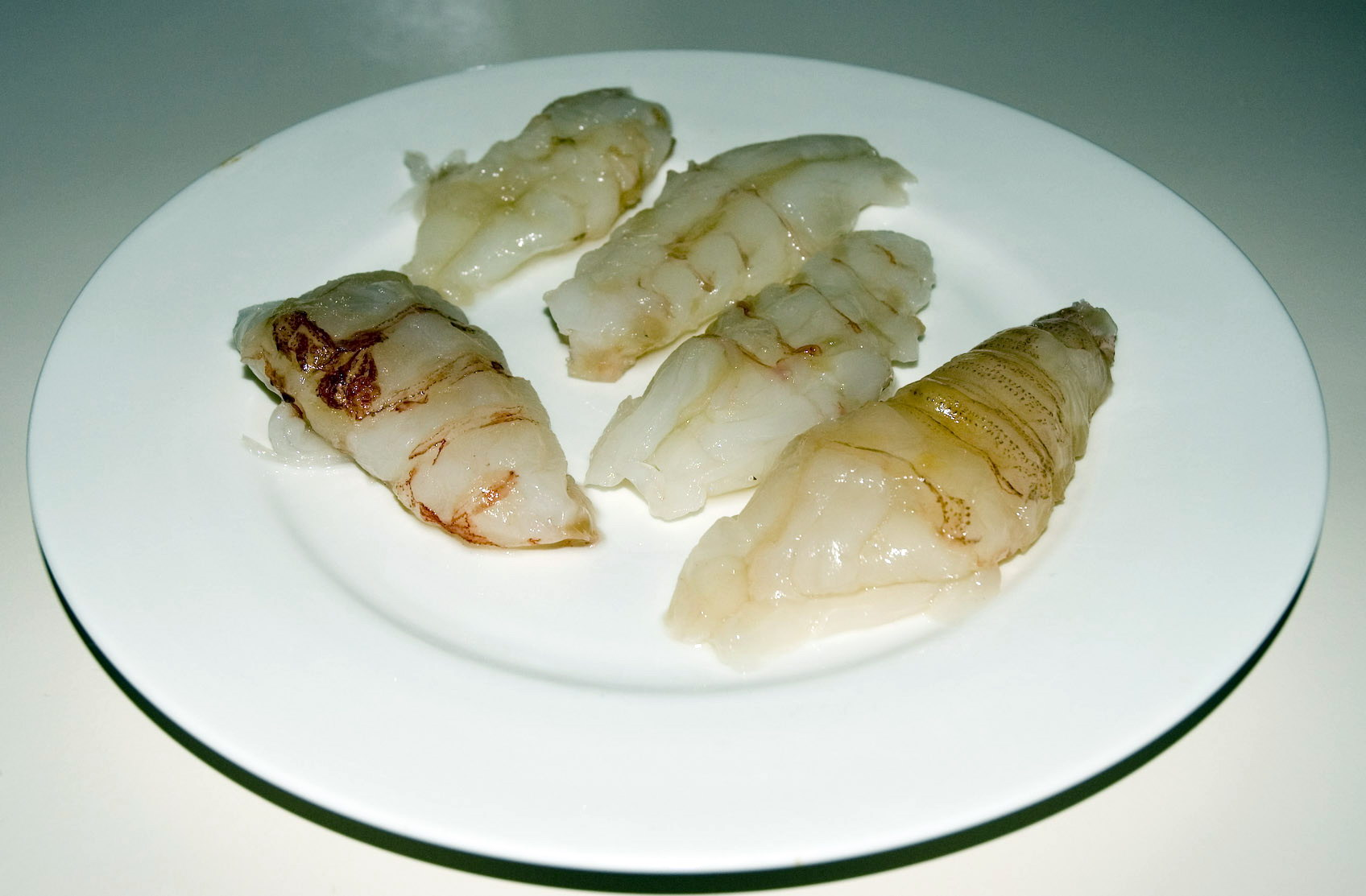 Flesh from Moreton Bay bugs before cooking.